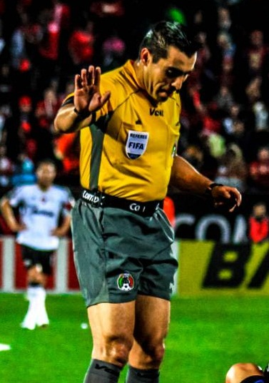 Mexican referee Marco Antonio Rodriguez